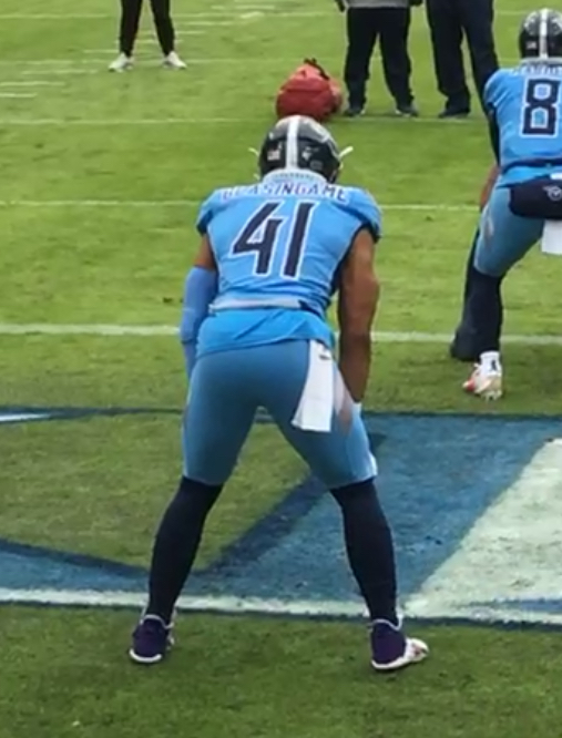 Tennessee Titans fullback Khari Blasingame pregame before the Week 15 Texans game on December 15, 2019 at Nissan Stadium.